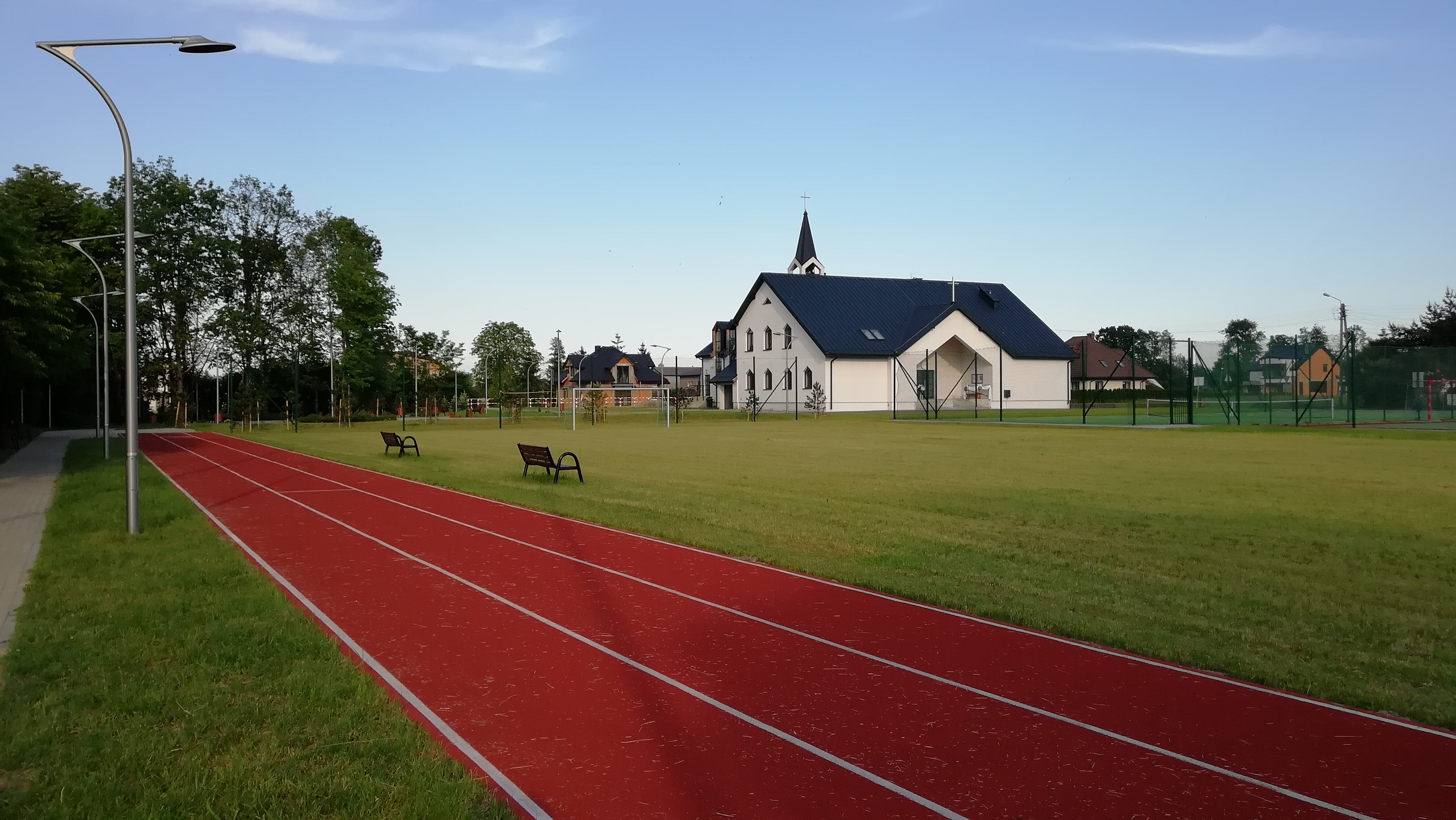 sports fields in Gorzów